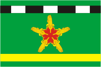 Otrado-Kubanskoe (Krasnodar krai), flag